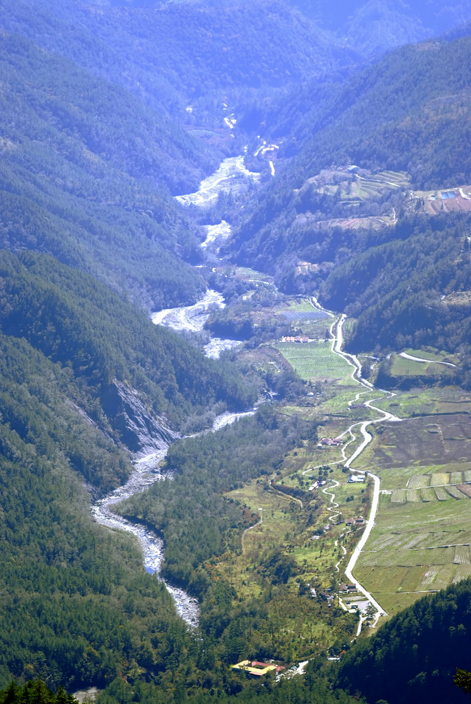 The view of Cijiawan River Valley overlooking from the peak of Tao Mountain.